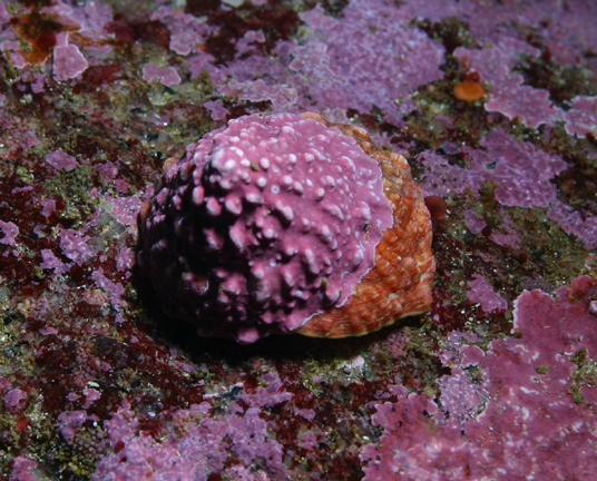 The shells of red turban snails Pomaulax gibberosus (Dillwyn, 1817) (synonym: Lithopoma gibberosa) are usually covered with encrusting algae. The true shell color--red--can be seen along the growing edge.